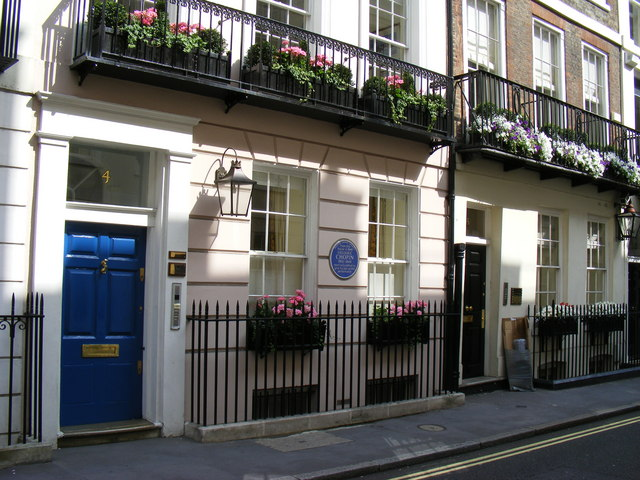 Blue Plaque at 4 St James's Place From this house in 1848 Frederic Chopin went to the Guildhall to give his last public performance. (Plaque erected in 1981 by Greater London Council)